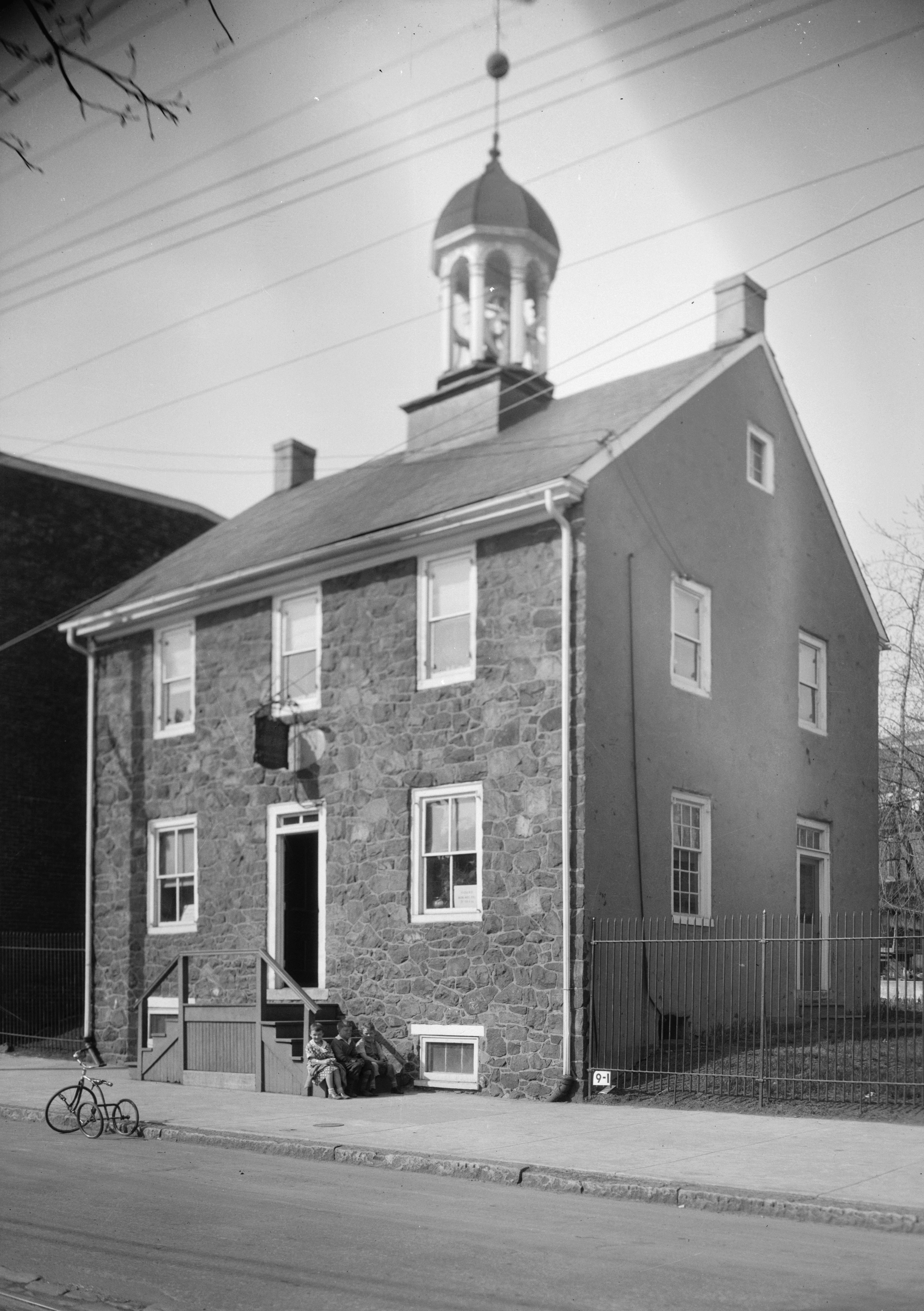 The Brandywine Academy, 5 Vandever Avenue, Wilmington DE